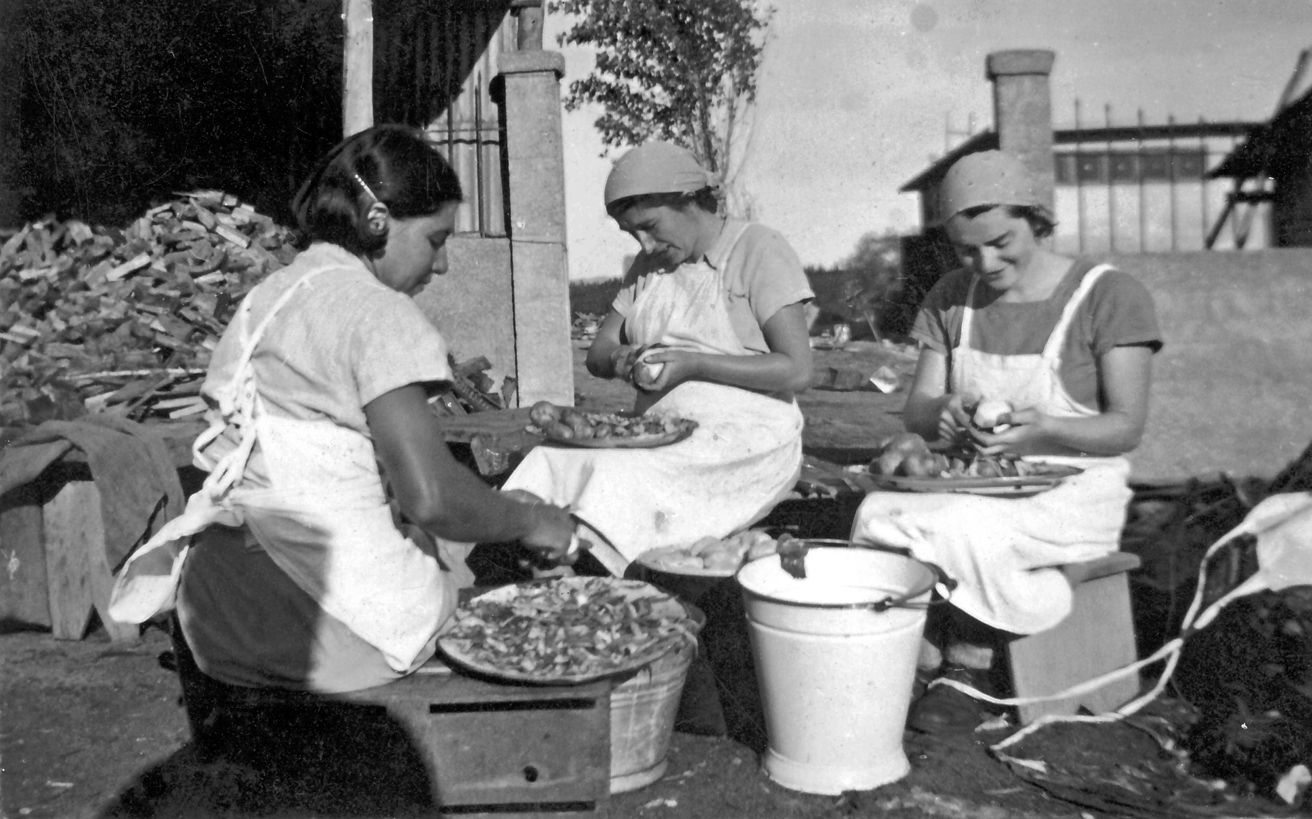 Gan-Shmuel - Peeled potatoes 1937